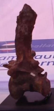 Vertebra referred to the spinosaurine species Siamosaurus suteethorni, Sirindhorn Museum, Thailand.